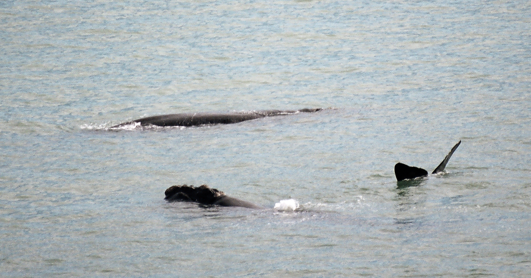 Whales spotted along the Garden Route, near Hermanus, South Africa